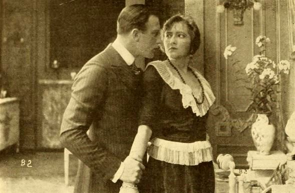 Still from the American film The Bluffer (1919) with Frank Mayo and June Elvidge, on page 366 of the January 18, 1919 Moving Picture World.